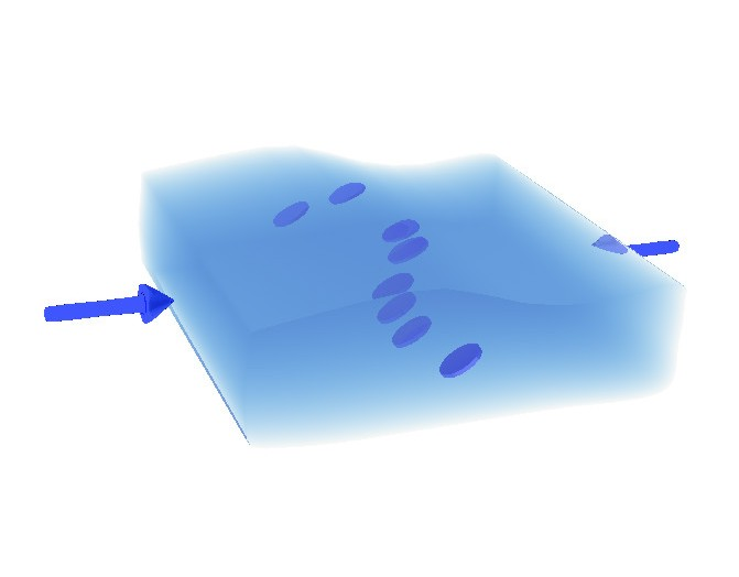 Fault mechanics creating a ridge